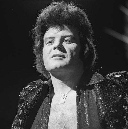 Gary Glitter in AVRO's TopPop (Dutch television show) in 1973